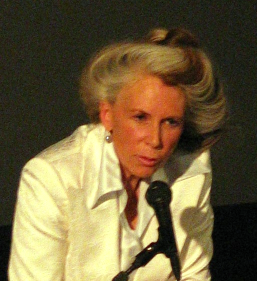 Catharine MacKinnon speaking at the Brattle Theatre, Cambridge, MA. 8 May, 2006.